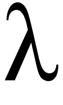 Image of Greek letter (in Times New Roman) described in filename, black on white.